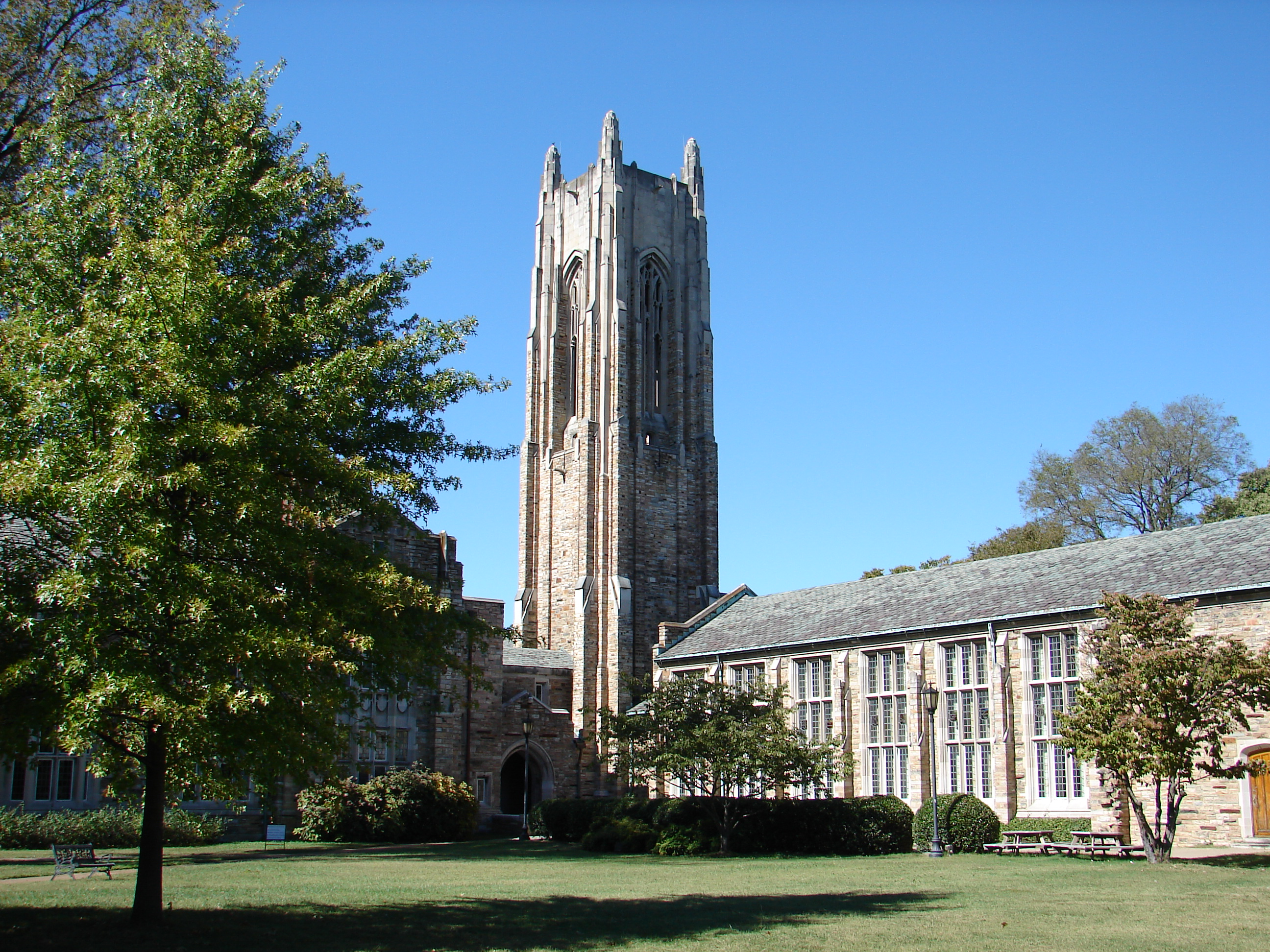 The tower at the Scarritt Bennett Center (formerly the Scarritt College For Christian Workers).